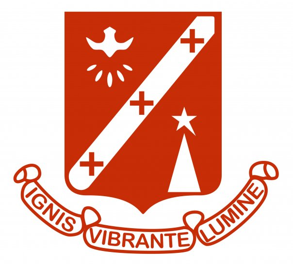 College du Saint Esprit Emblem